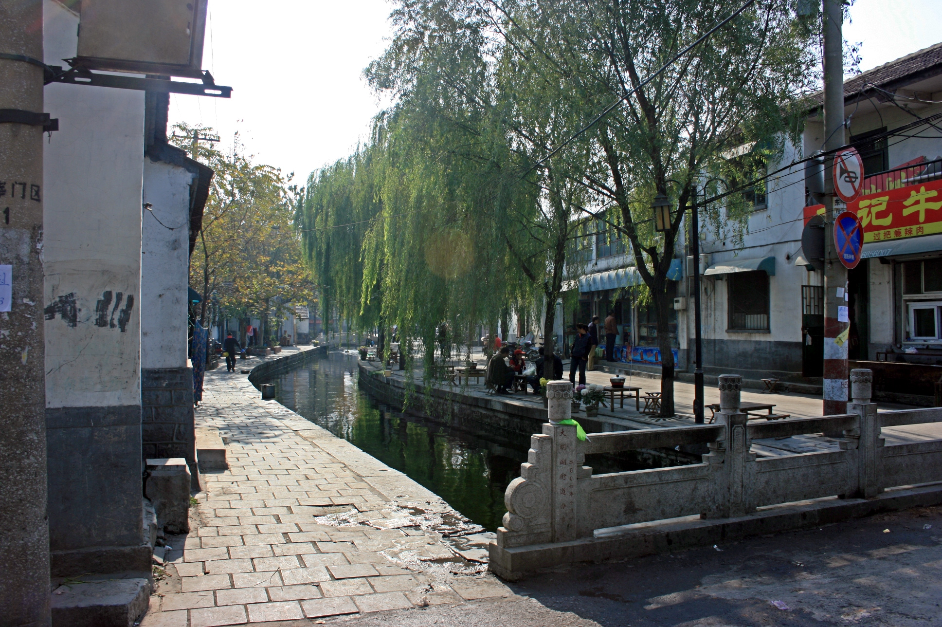 Qushuiting Street in Jinan, China